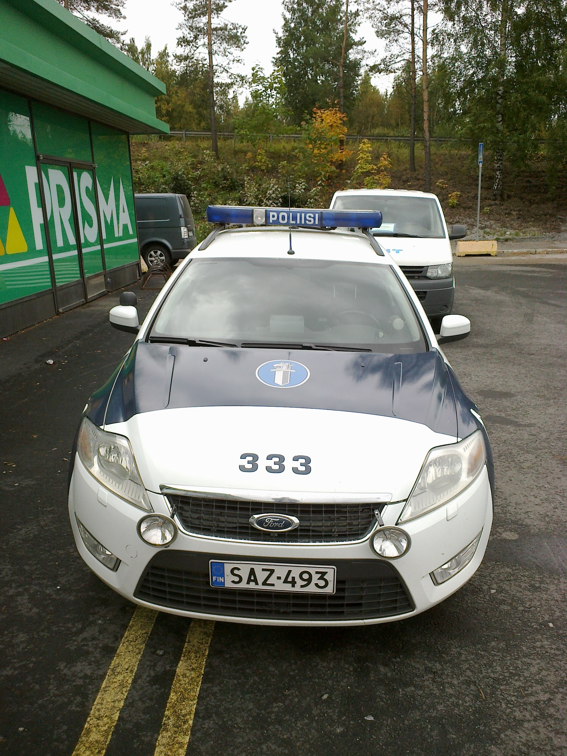 Finnish police car